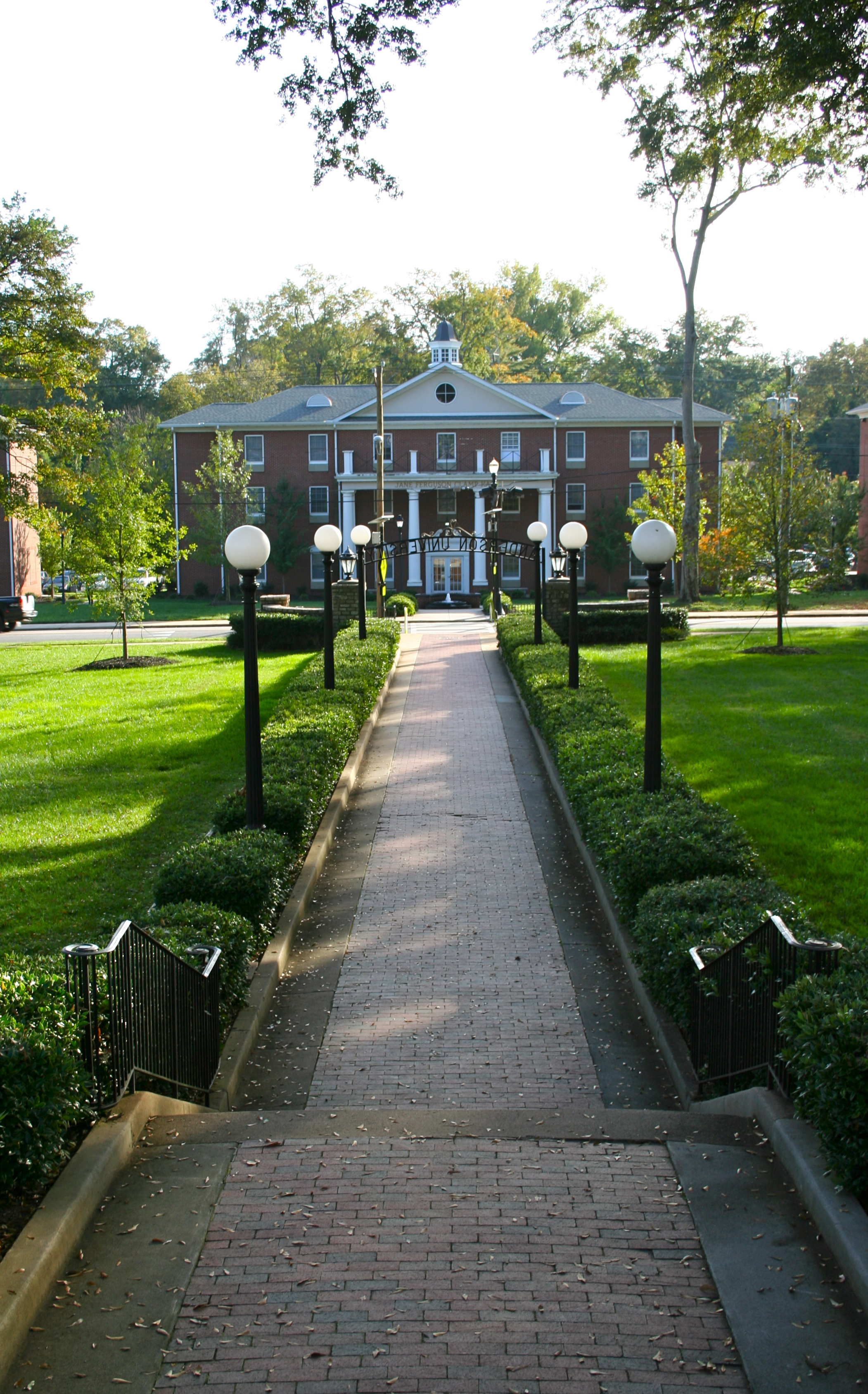 The front steps on the lawn of Anderson University in late summer